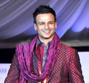 Actor Vivek Oberoi walks the ramp at the Global Peace Fashion Show by designer Neeta Lulla.